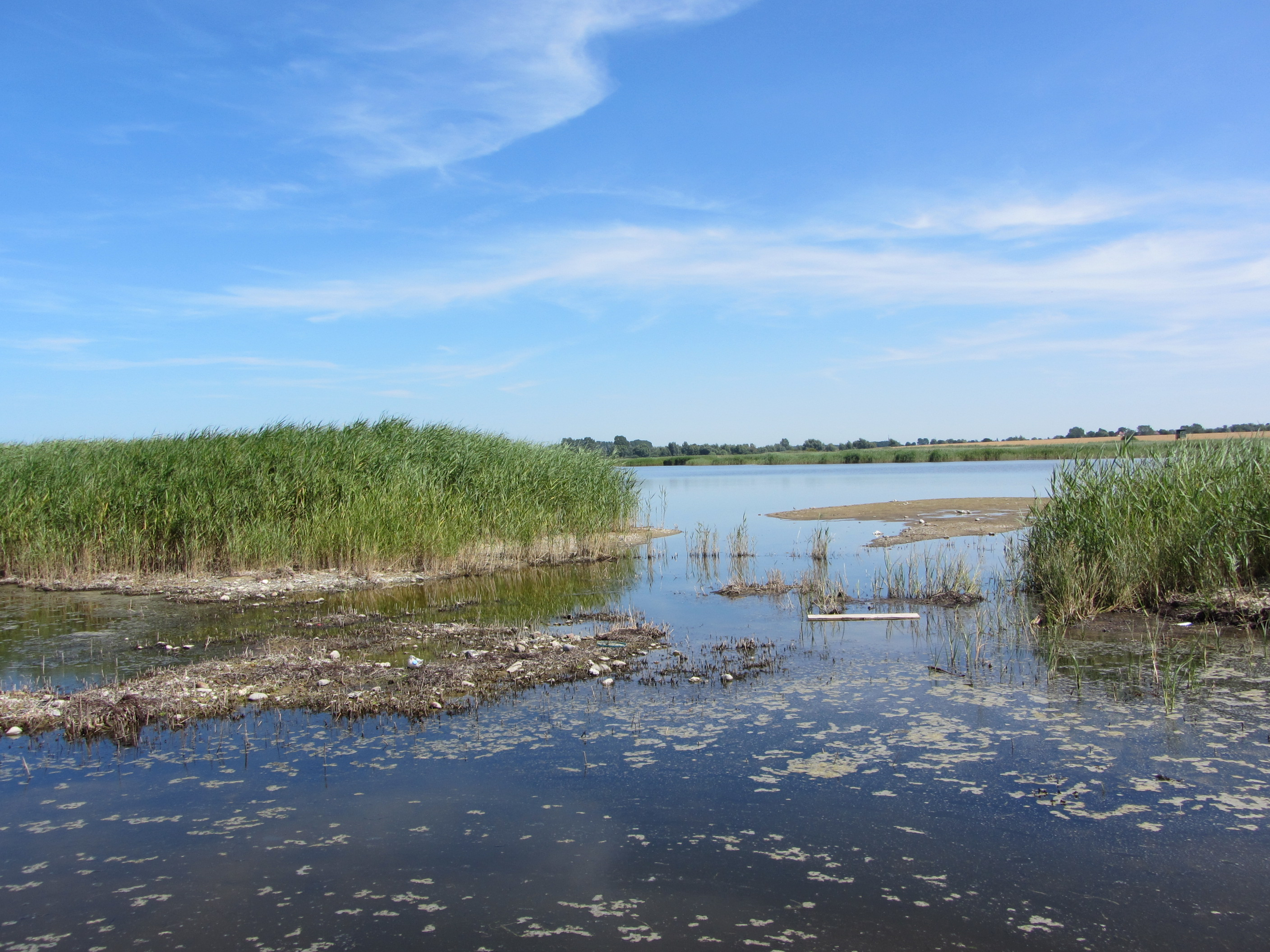 Nature reserve Riesensee - View from the beach - north of Kägsdorf, district Rostock, Mecklenburg-Vorpommern, Germany